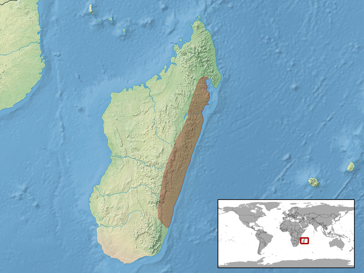 geographic distribution of Uroplatus fimbriatus (Native: Madagascar)